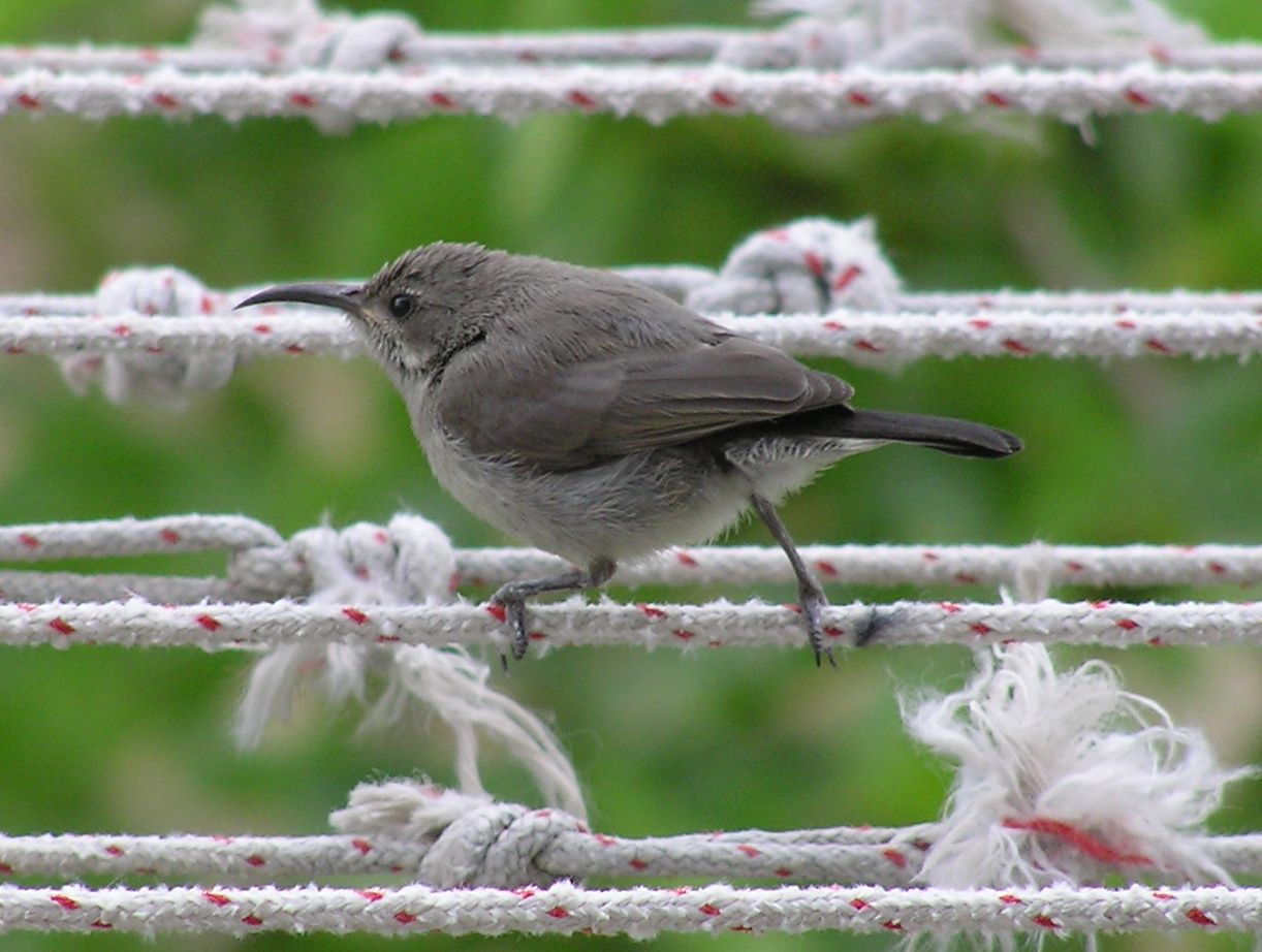 A Nactarinia osea female, taken in Jerusalem, Israel